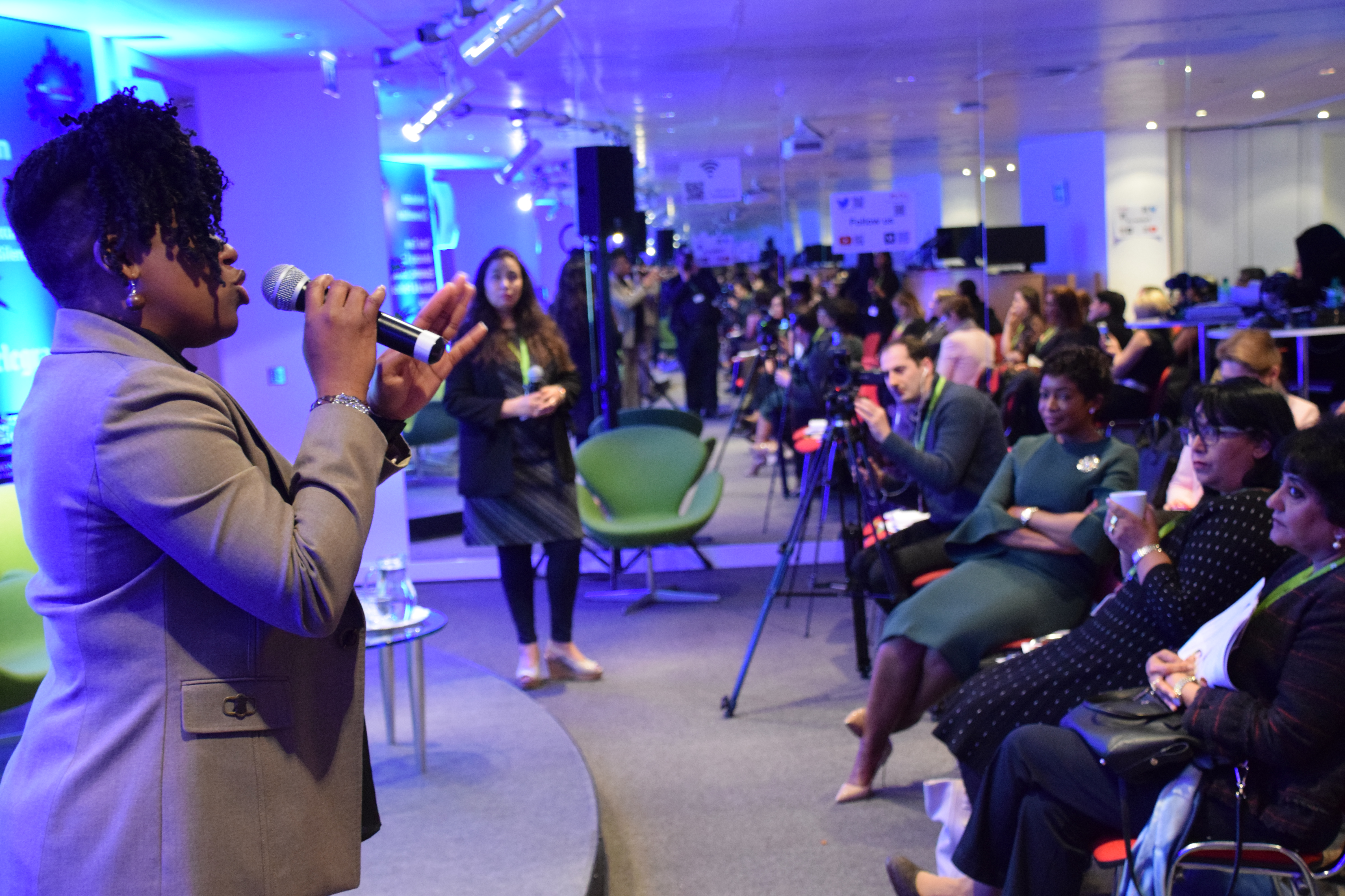 At the 2018 Inclusion Convention, stories of digital media were attributed to sexual harassment.